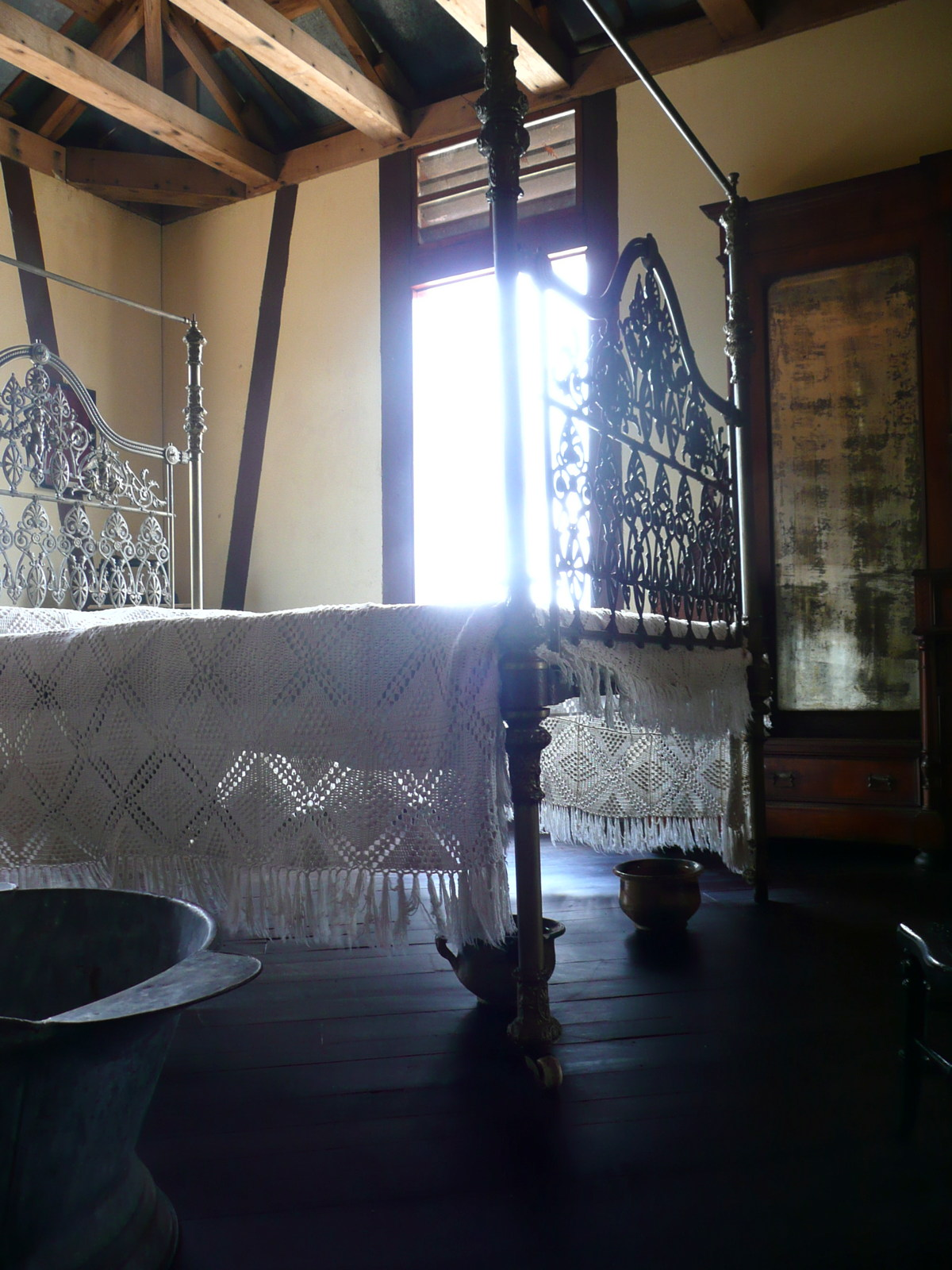 Cuba, historic coffee plantation cafetal Isabelica. Manor furniture. Metal bed, bathtub